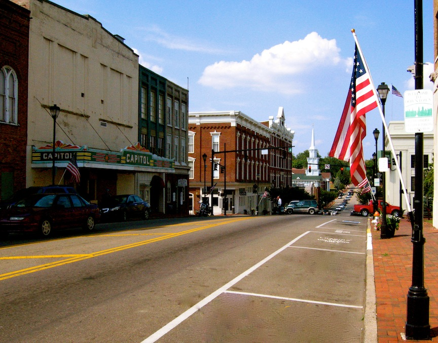 View facing north, from North Main Street in Greeneville, Tennessee